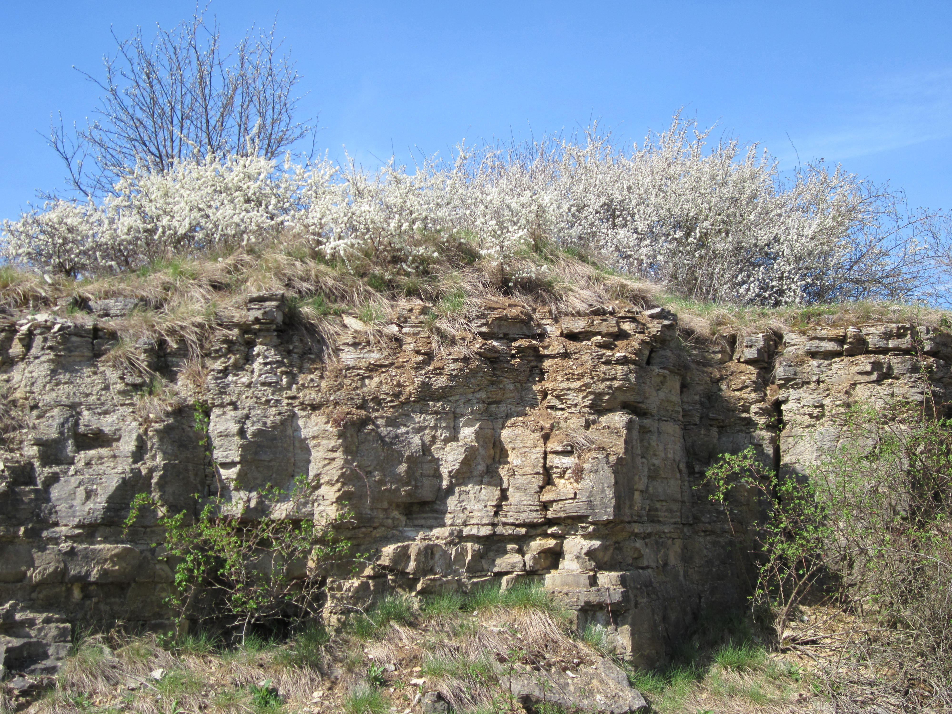 Old limestone quarry with a flowering blackthorn hedge (Prunus spinosa) in "Sodenberg-Gans" nature reserve, Lower Franconia, Bavaria, Germany